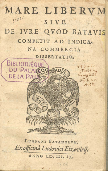 Title page of Hugo Grotius (1609) (in latin) Mare Liberum, sive de jure quod Batavis competit ad Indicana commercia dissertatio, Leiden: Ex officina Ludovici Elzevirij [From the office of Lodewijk Elzevir] This copy is from the Peace Palace Library in The Hague, Netherlands.